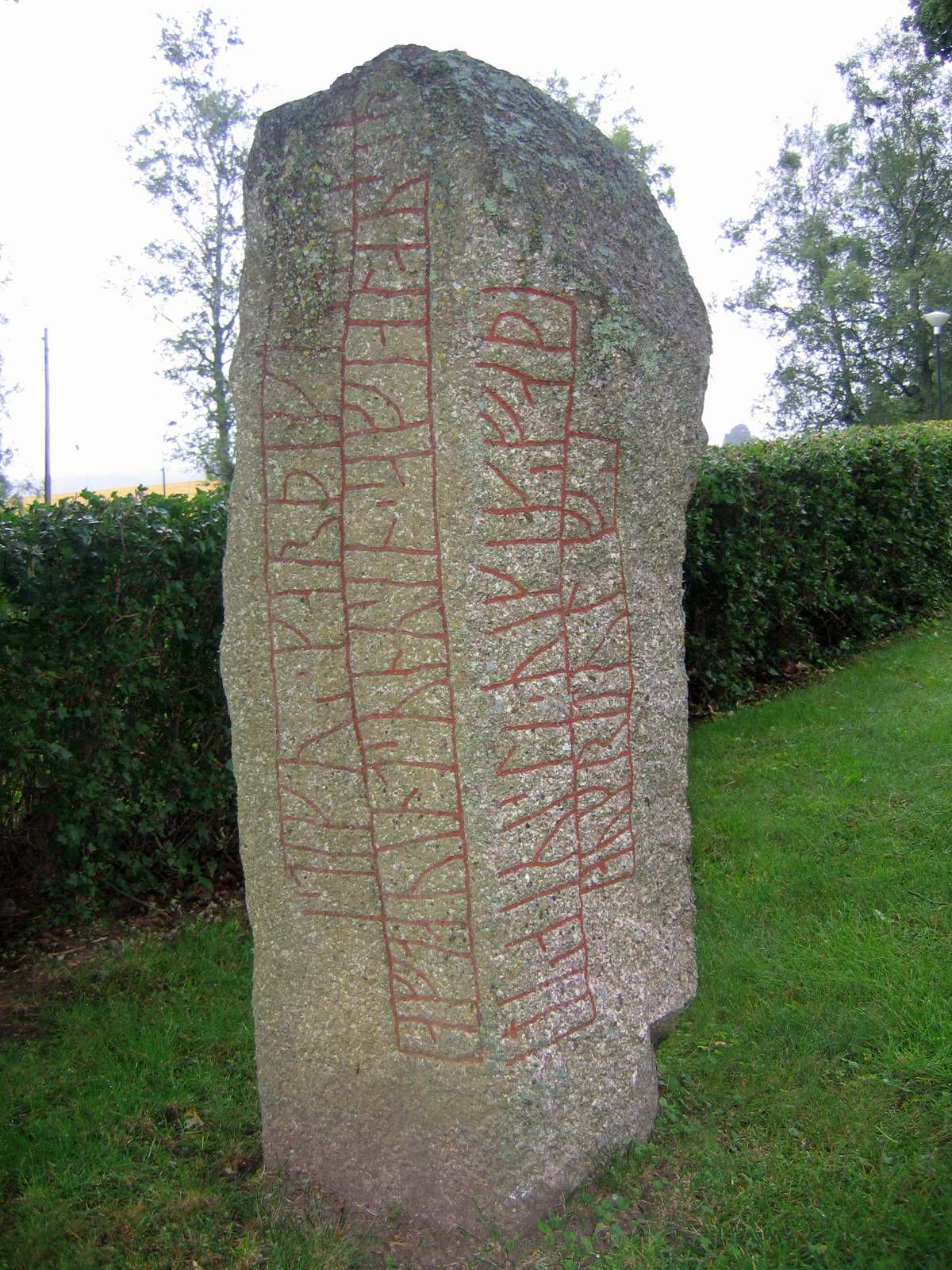 Runestone Ög 8 at Västra Stenby church in Motala, Östergötland.